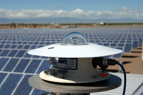 Pyranometer